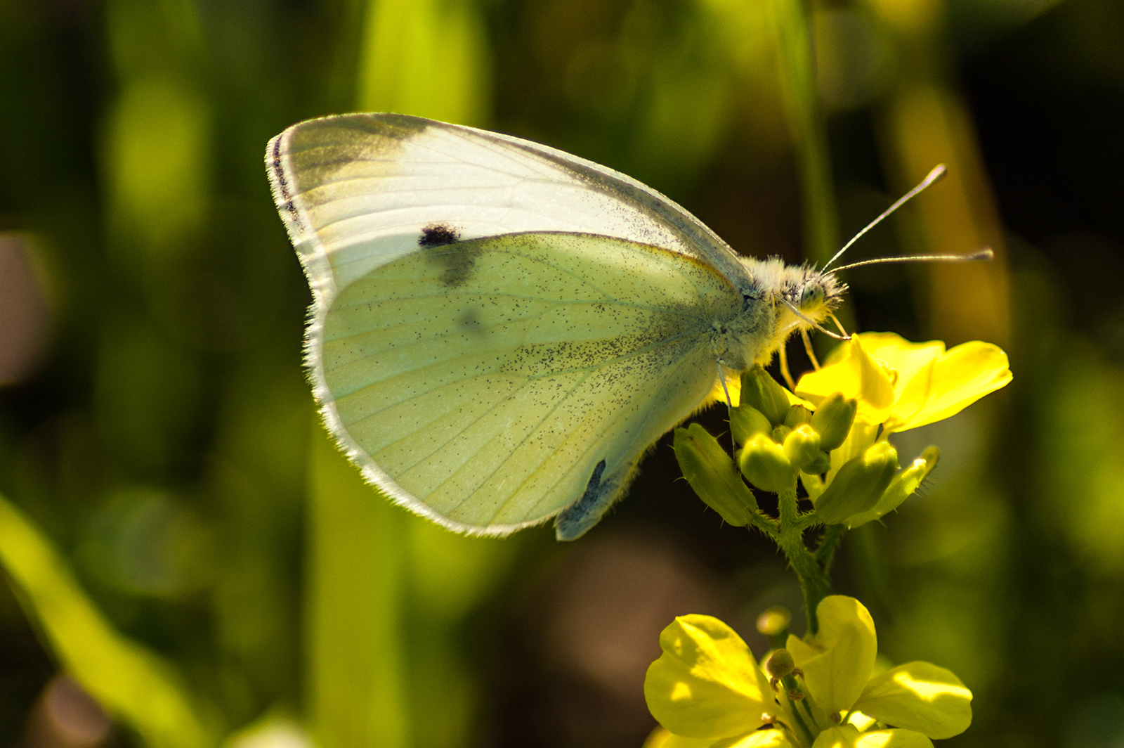 Small White